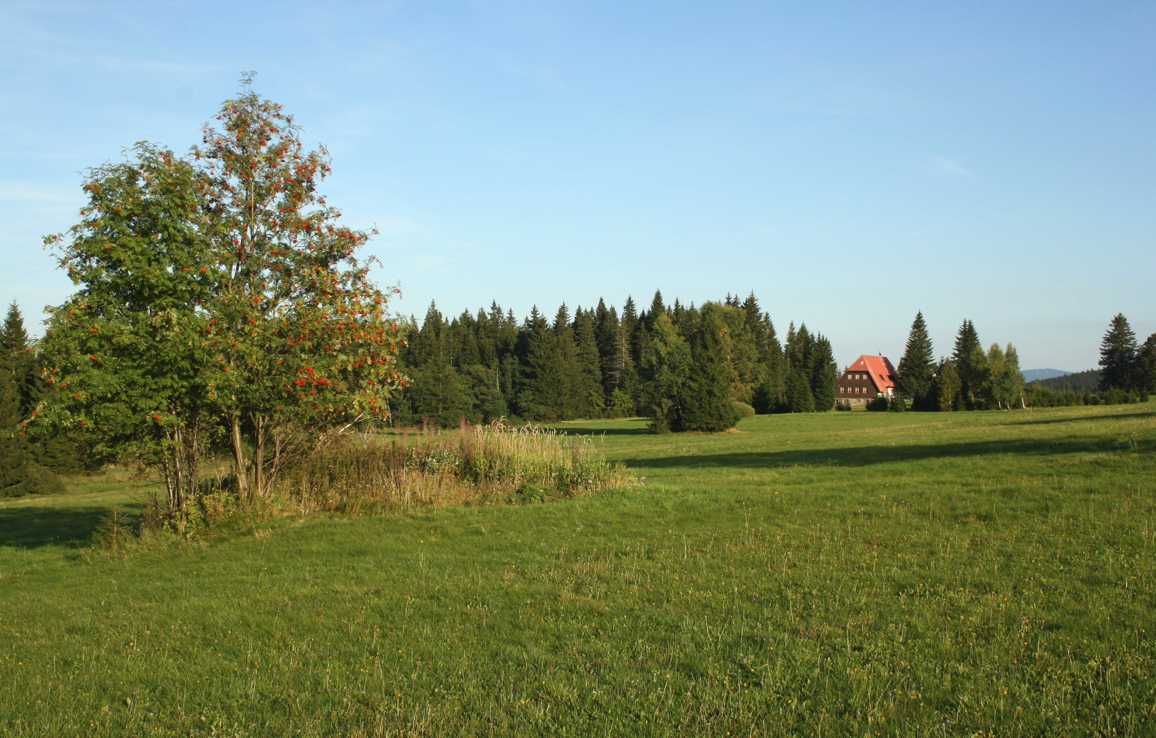 Zadov, part of Stachy village, Czech Republic